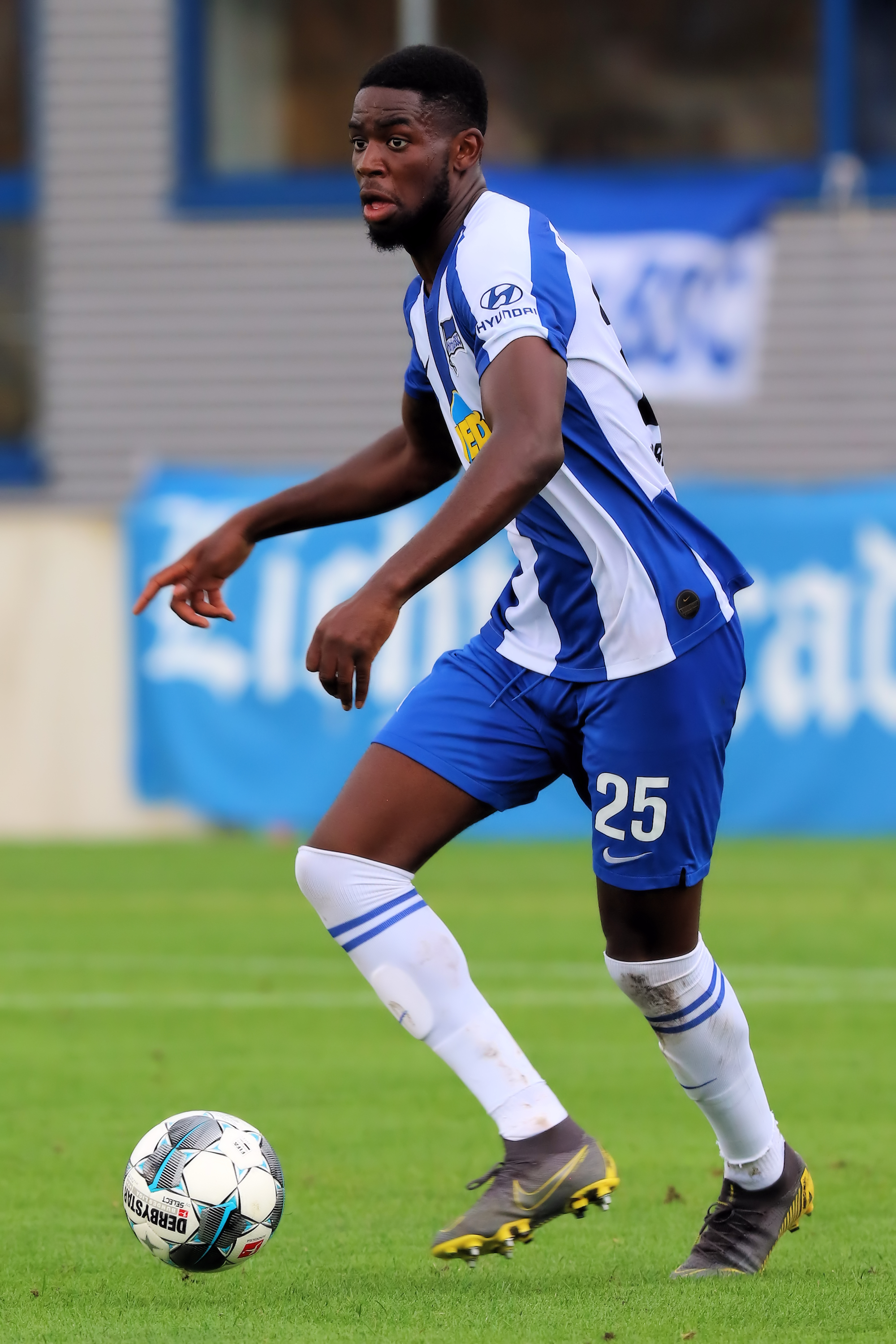 Friendly match Hertha BSC (blue-white shirts) vs. West Ham United (red-blue shirts) at 31-07-2019 3-5 (3-2) in the Sonnenseestadium in Ritzing. – The photo shows Jordan Torunarigha (Hertha BSC).